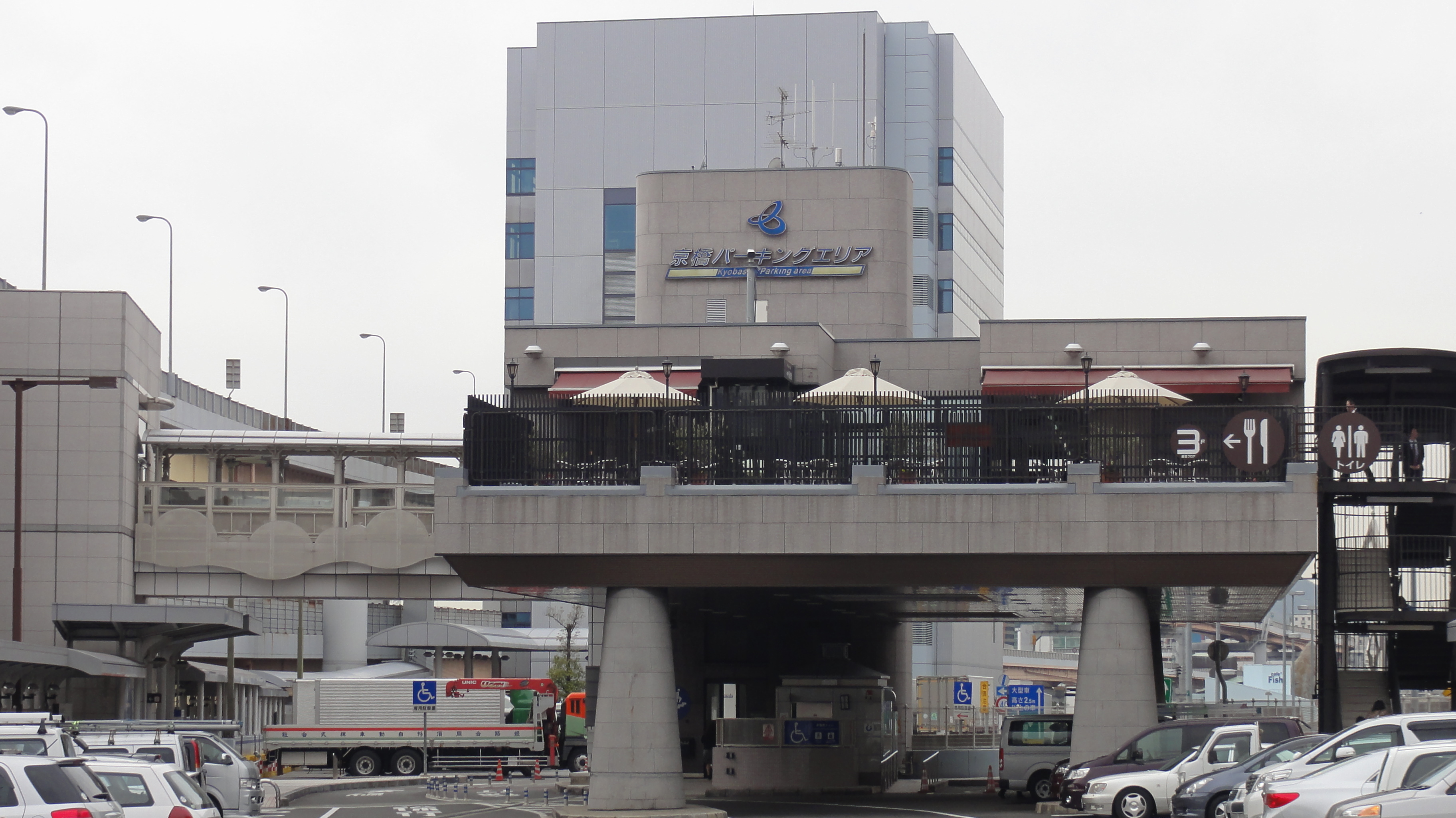 Kyobashi Parkig Area kudari,Hyogo prefecture, Japan